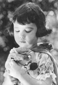 Baby Peggy, from